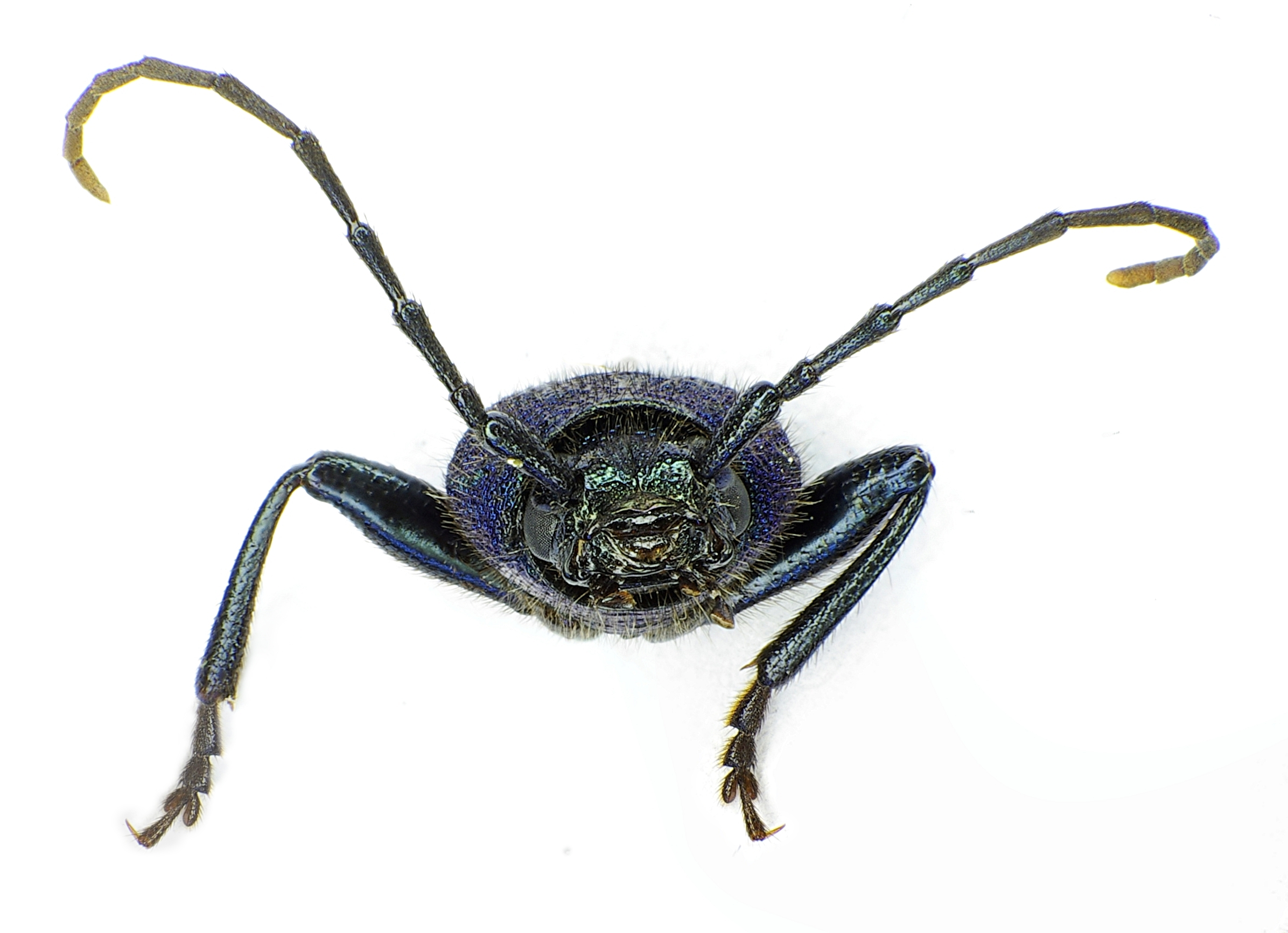 Front of Callidium violaceum from Southern Germany